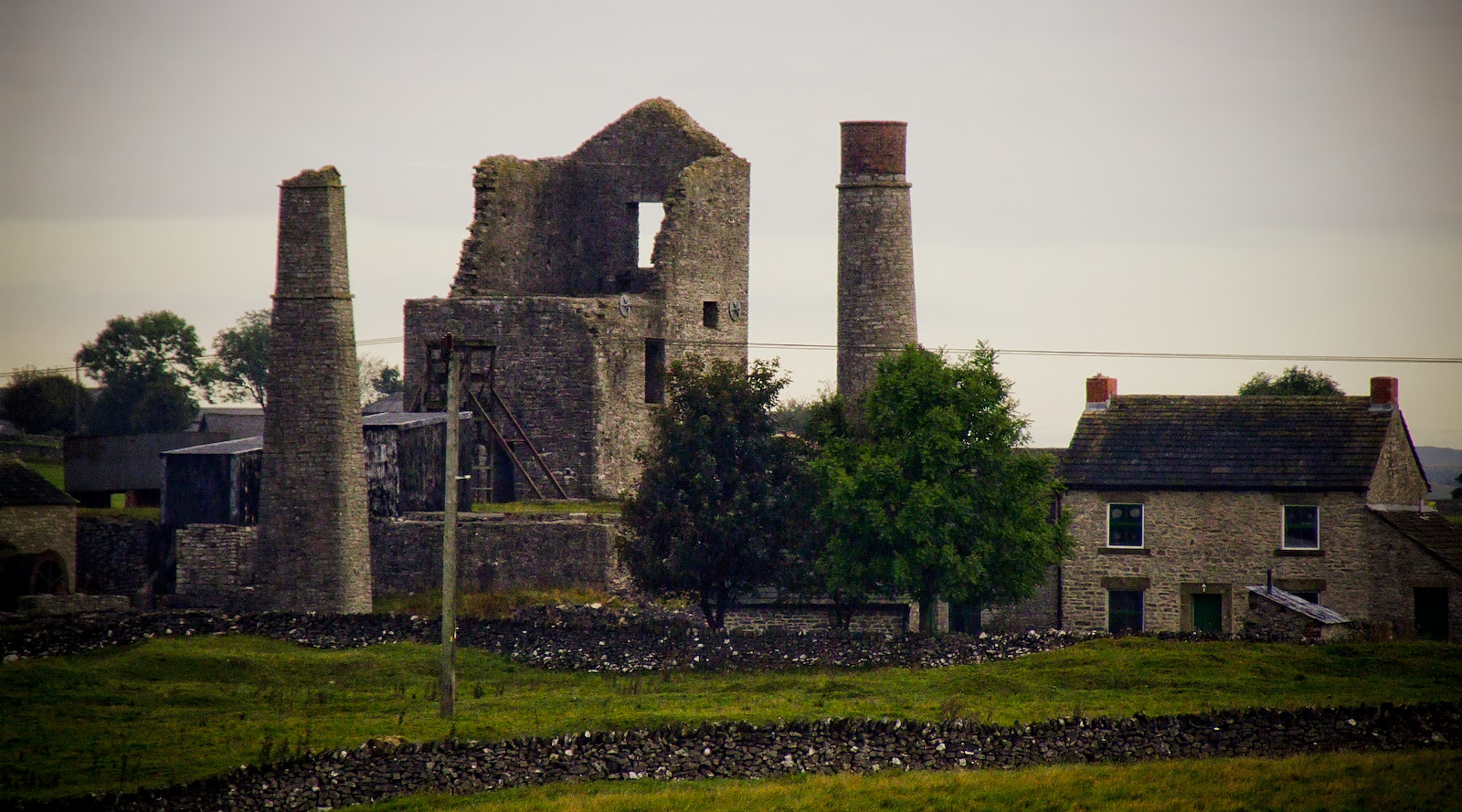 Magpie Mine stands one third of a mile south of the village of Sheldon, Derbyshire from where it can be seen standing darkly silhouetted against the skyline. It is about 1050 feet above sea level. Footpaths approach it both from Sheldon and the Monyash to Ashford-in-the-Water road. Members of the public may visit it for external inspection at any reasonable time.